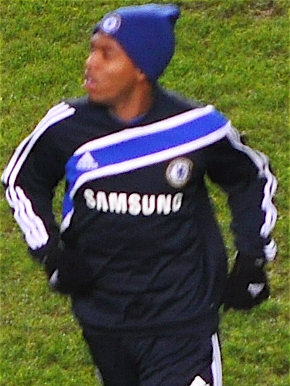 Daniel Sturridge - chelsea